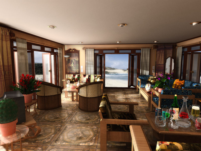 Maya7 Nurbs and Poly Modeling, Mental Ray Area Lights, Hdri Image Based Lighting, Global illumination and Secondary Bounces Final Gather! 3d, Autodesk, Maya, Cg, Digital, Art, Bangkok, Koh, Samui, Alex, Sandri, Graphics, Animations, Rendering, Mental Ray 3D Autodesk Maya Architectural Visualizations.